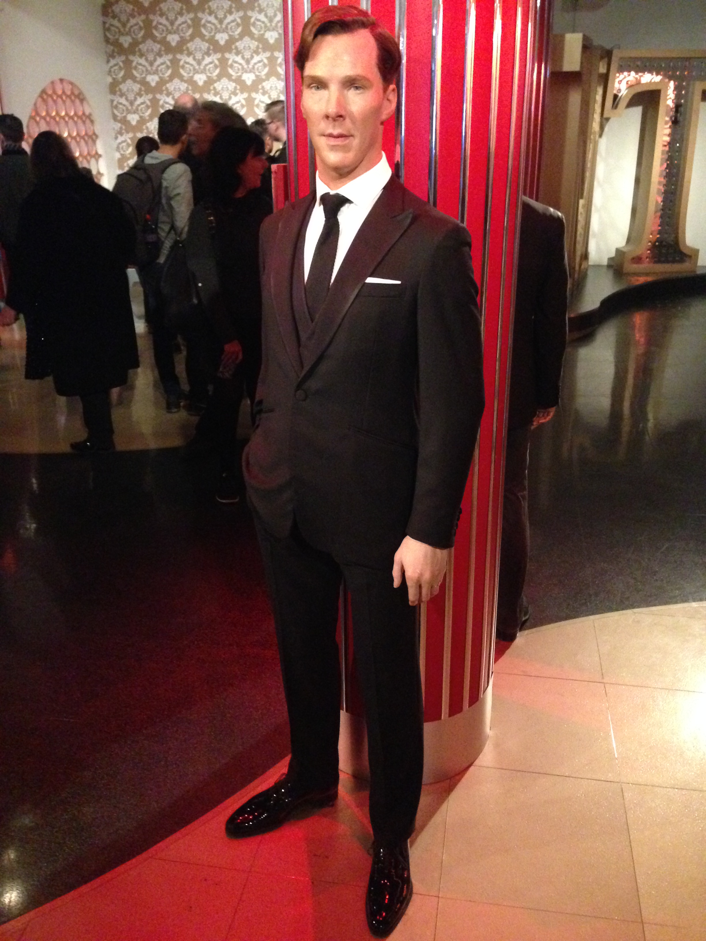 Benedict Cumberbatch at Madame Tussauds London - November 1st, 2016